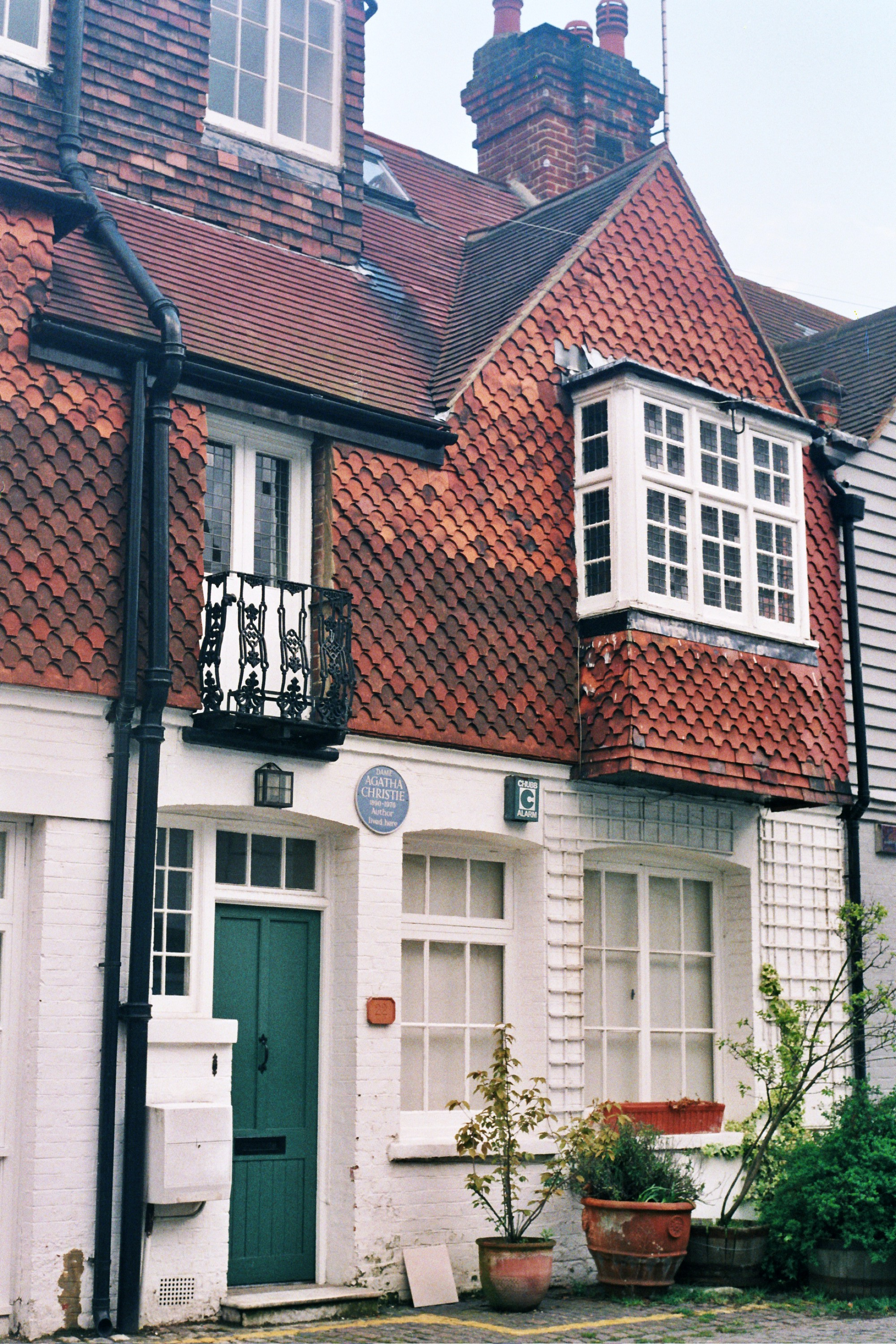 Christie lived in Chelsea, first in Cresswell Place and later in Sheffield Terrace. Both properties are now marked by blue plaques.